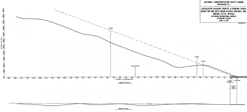 Flight 60 overran the southern end of the runway on April 5, 1976 in rainy weather.